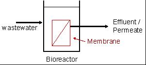 Author: Pierre Le Clech